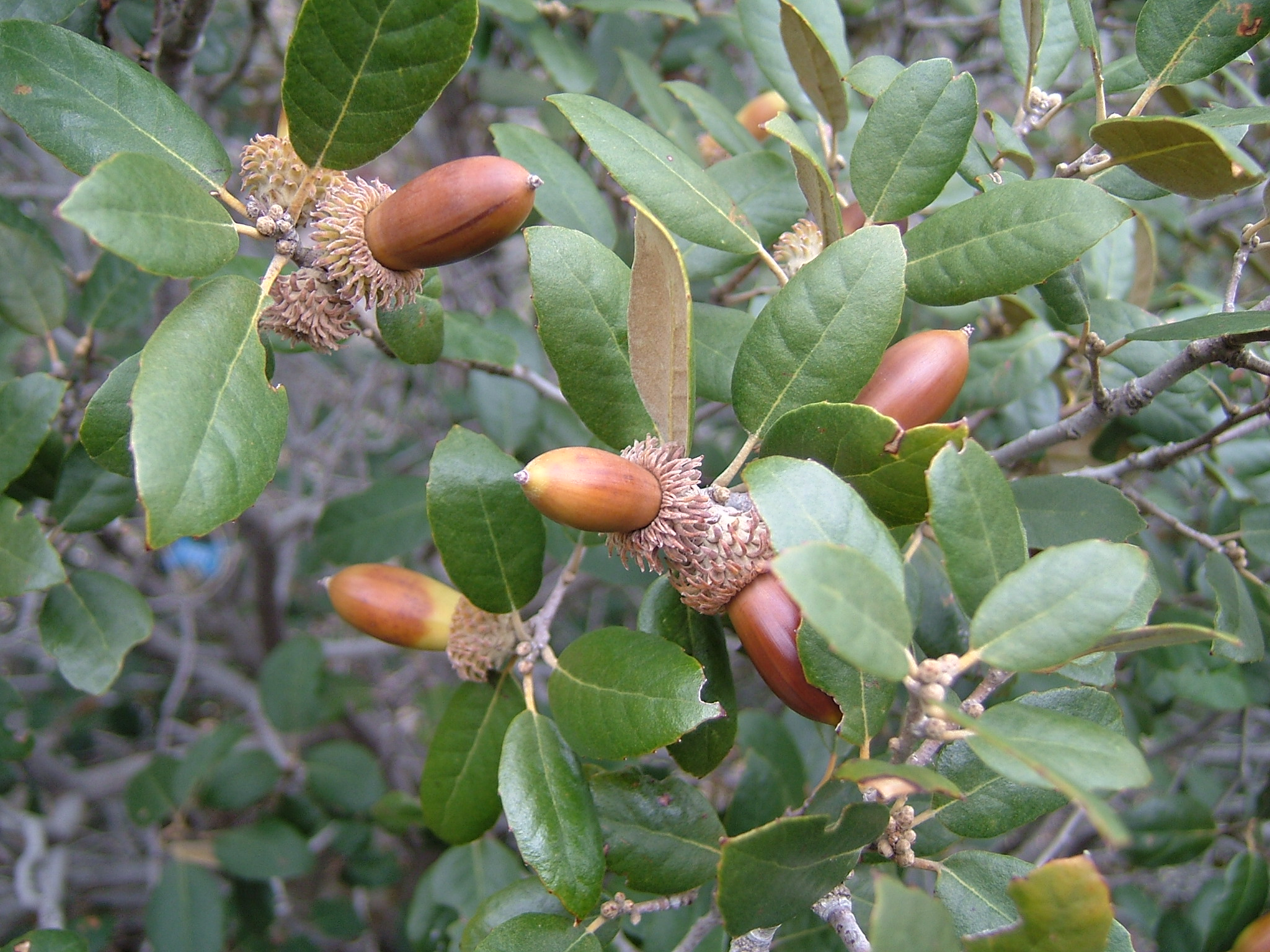 Leaves and acorns of golden oak